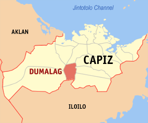 Map of Capiz showing the location of Dumalag